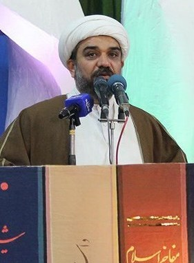 Mohammad Khorsand, Friday Imam of Kazeroon at the ceremony of Allameh Ali Doani- 13 March 2014